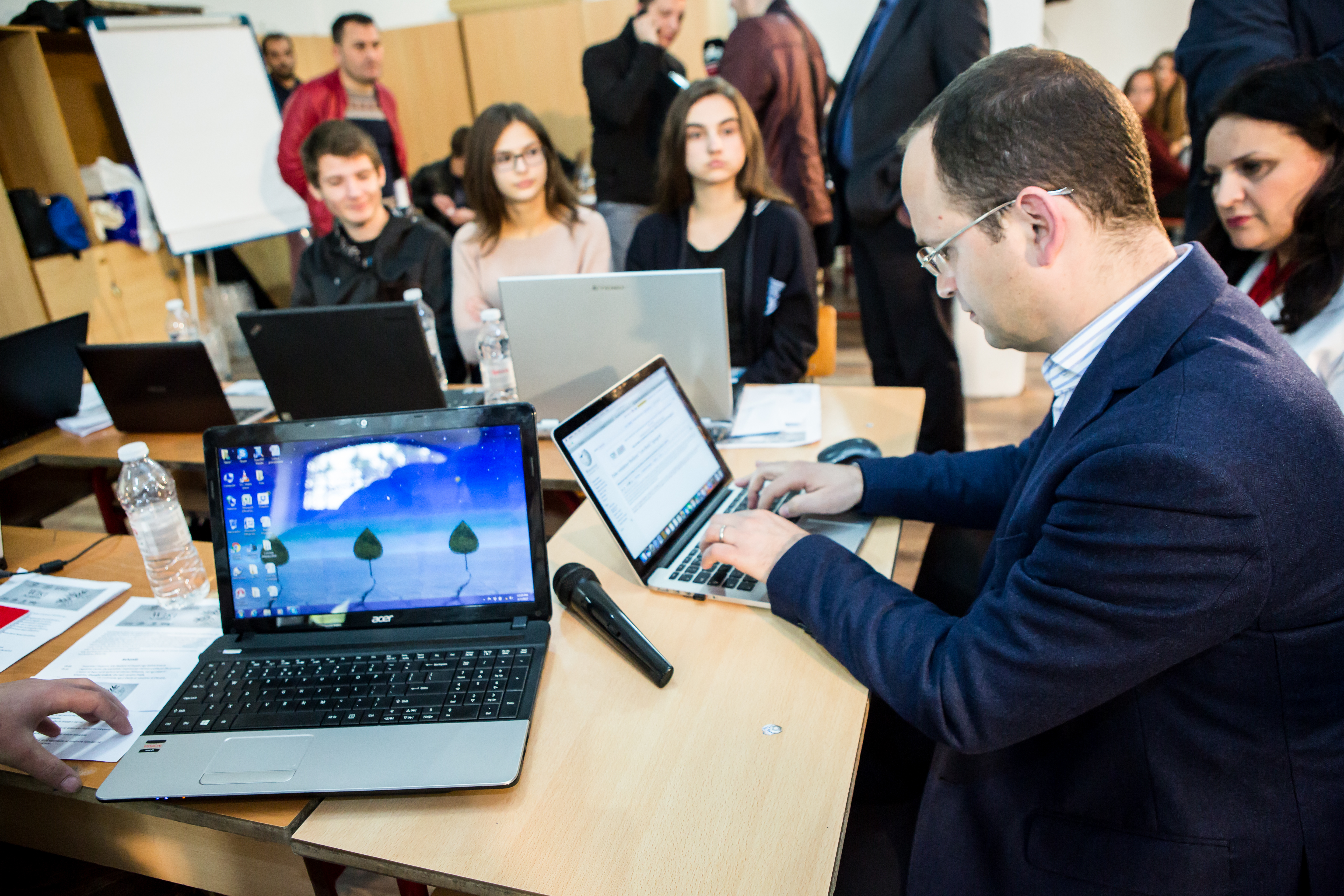 Moments from Wikiacademy in Shkodër, Albania in 2017.